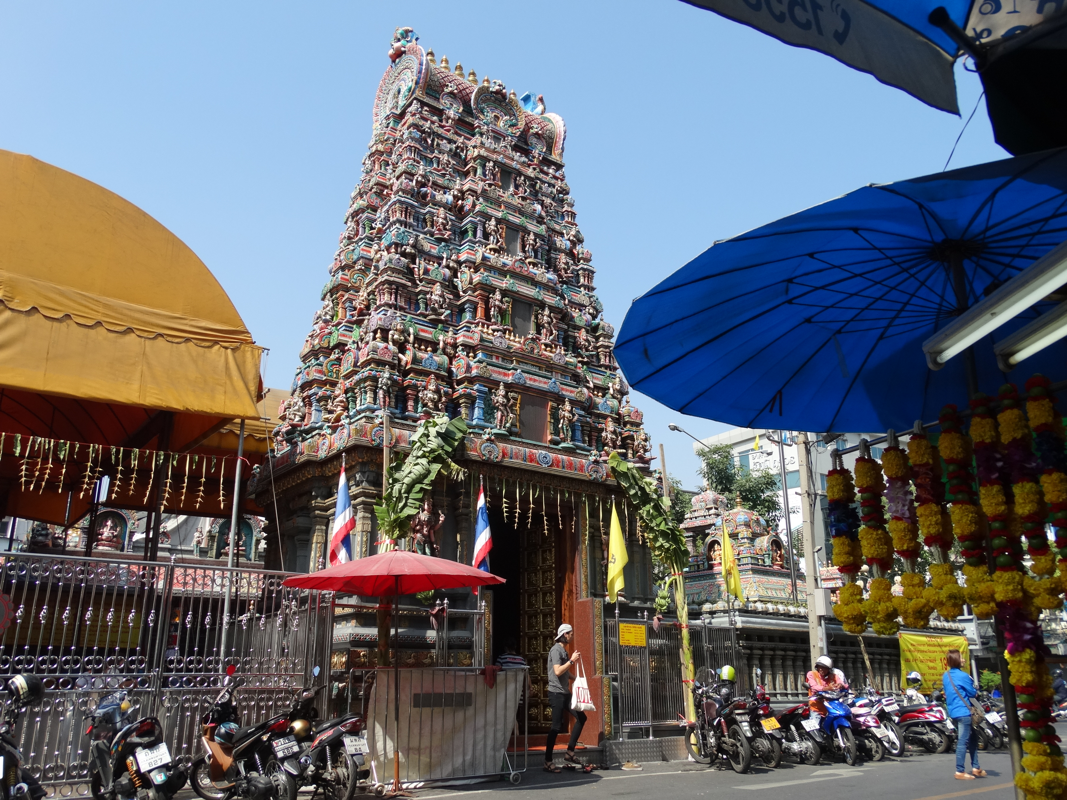 Street Scene at Sri Maha Mariamman - Hindu Temple - Bangkok - Thailand.